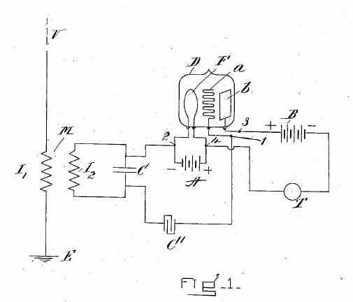 Circuit of one of the first vacuum tube radio receivers, invented by Lee De Forest in 1907, the inventor of the first amplifying vacuum tube, the Audion, from his 1907 patent. This is a grid-leak receiver, using a single Audion tube which both amplifies the radio signal and rectifies it, extracting the modulation (audio signal) from the radio frequency carrier wave.